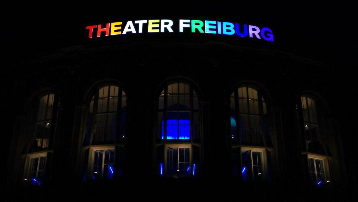 Rainbow lettering of the Freiburg Theatre for Gay Pride Freiburg 2018